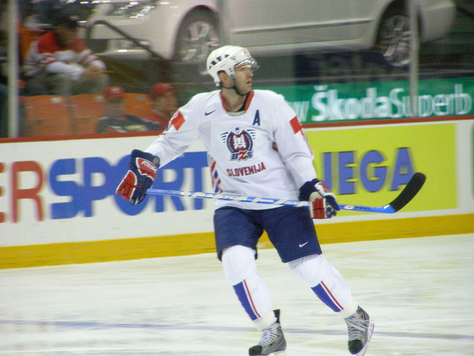 Slovenia VS USA (IIHF World Hockey Championship in Halifax NS, May 4 2008)